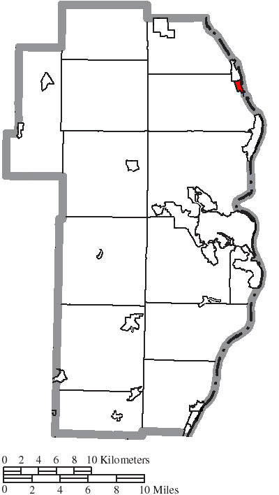 Map of the municipal and township boundaries of Jefferson County, Ohio, United States, as of the 2000 census, with the location of the village of Empire highlighted. Township borders are shown only in unincorporated areas in order to differentiate incorporated and unincorporated areas more clearly.